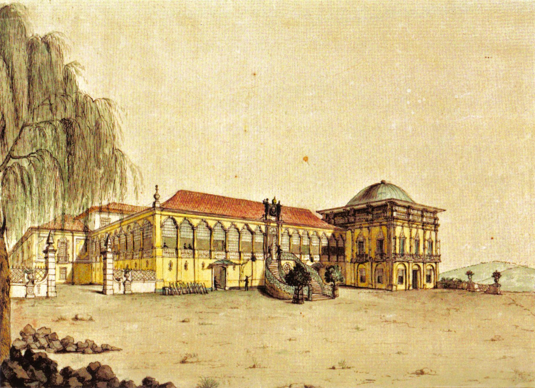 Palace of Sao Cristovao